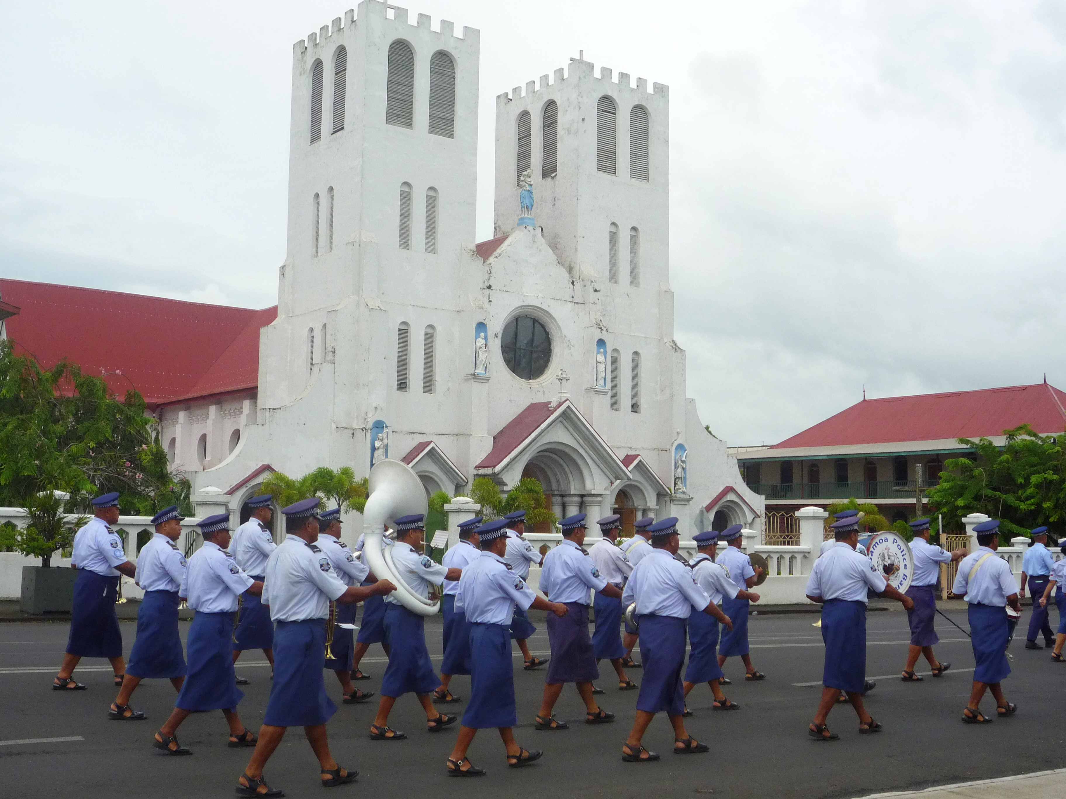 Samoa police brass band marching early morning to Apia to the flag raising ceremony in front of government house. In the photo is the historic Catholic church on Beach Road. The band marches every morning Monday to Friday on the main road to the flag raising.